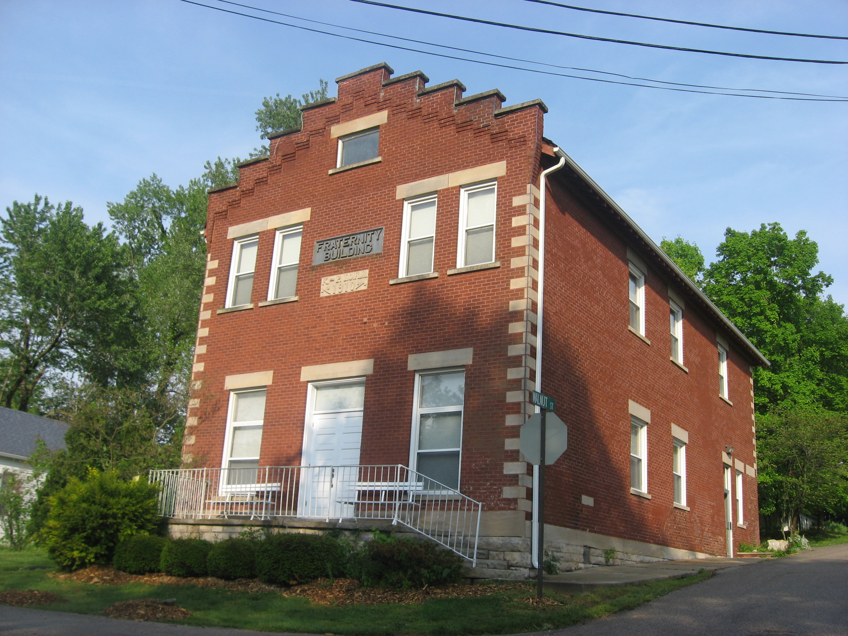 Front and southern side of the old Fraternity Building (Red Men's Lodge), located at 7495 Strain Ridge Road at Smithville in Clear Creek Township, Monroe County, Indiana, United States. It was built in 1910.